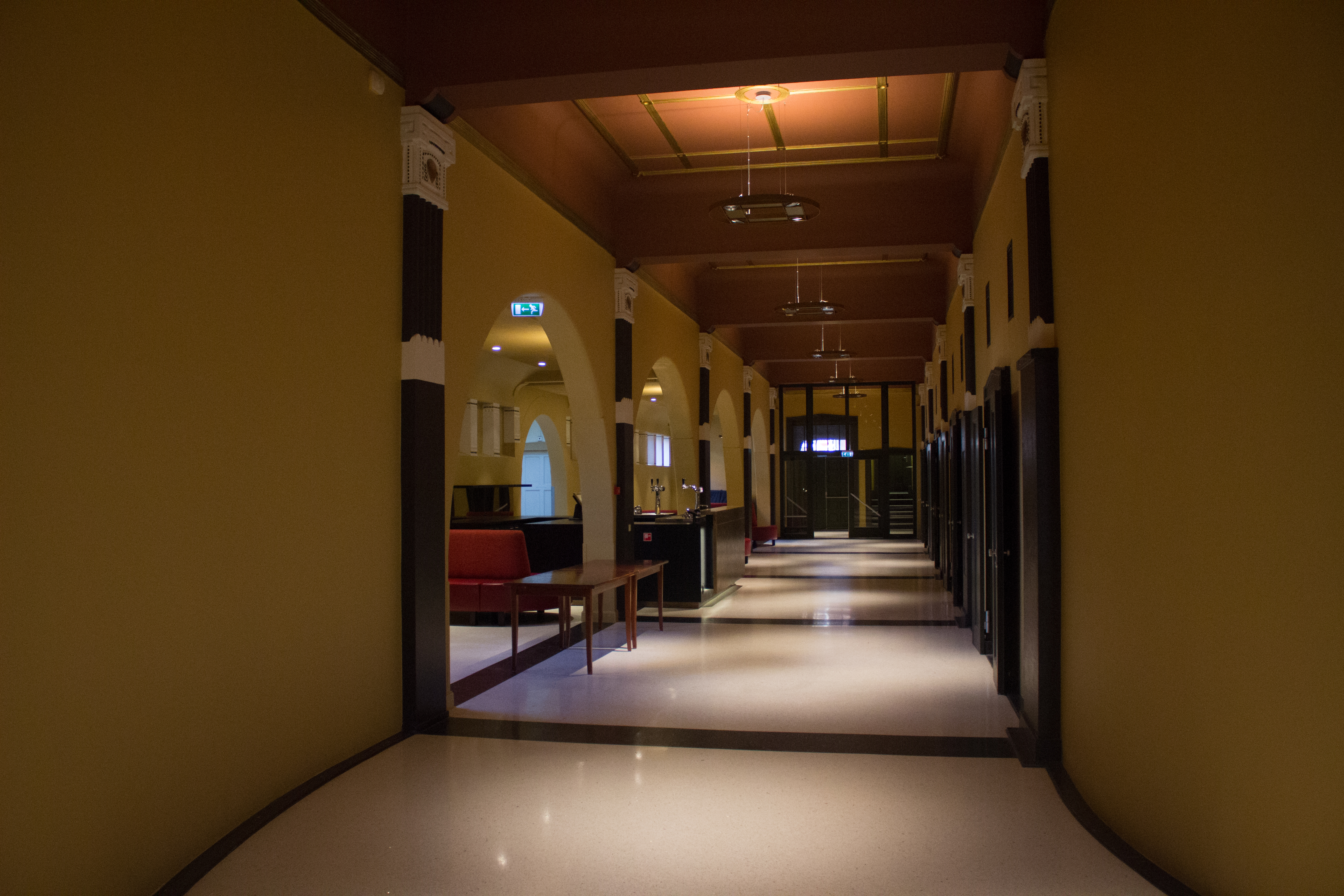 Interior of the concert building "De Vereeniging"